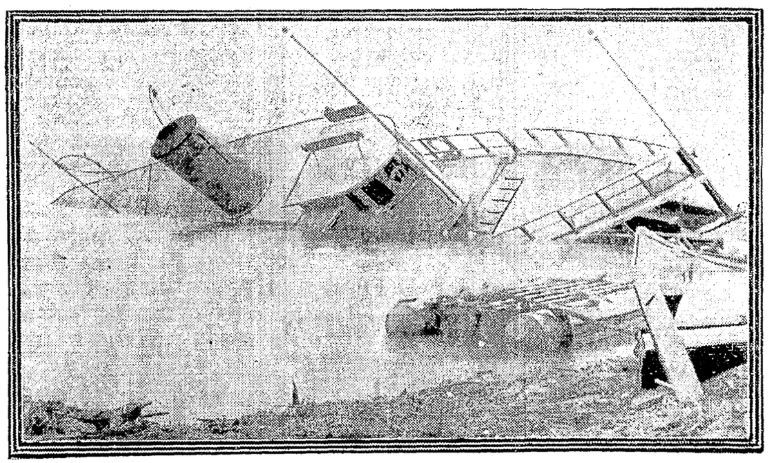 This is the steamboat Triton, sunk just south of Mercer Island in Lake Washington on September 24, 1916.